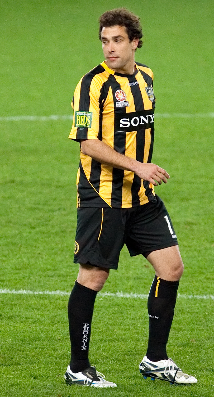 Daniel Lins Côrtes playing for the Wellington Phoenix against Sydney FC in the 2009-10 A-League.